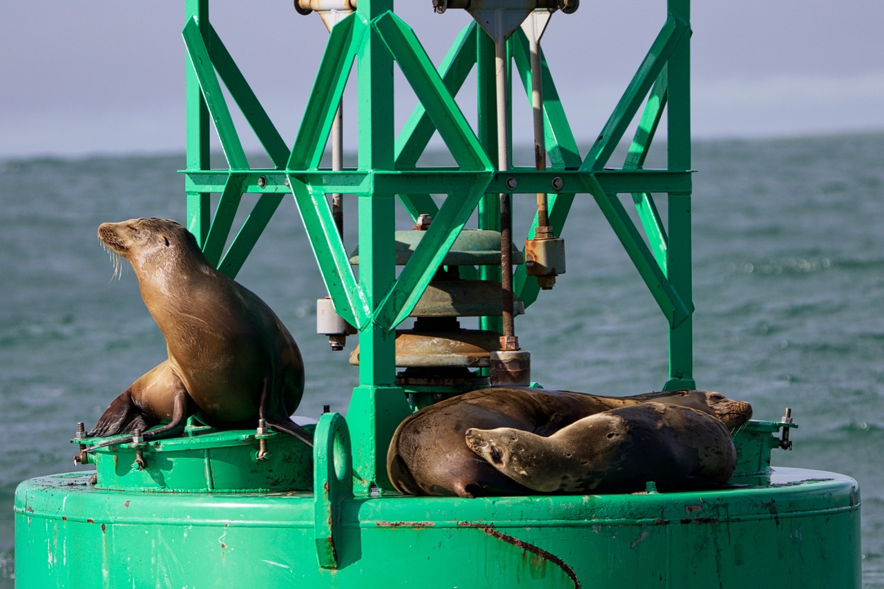 Sea lions bask in the sun on an ocean buoy off Half Moon Bay, February 2016. USFWS Photo/Steve Martarano